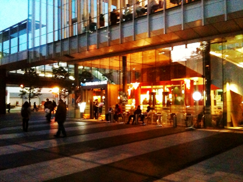 Excelsior Caffé at Akiba Cross Field 1, 28th Feb. 2010